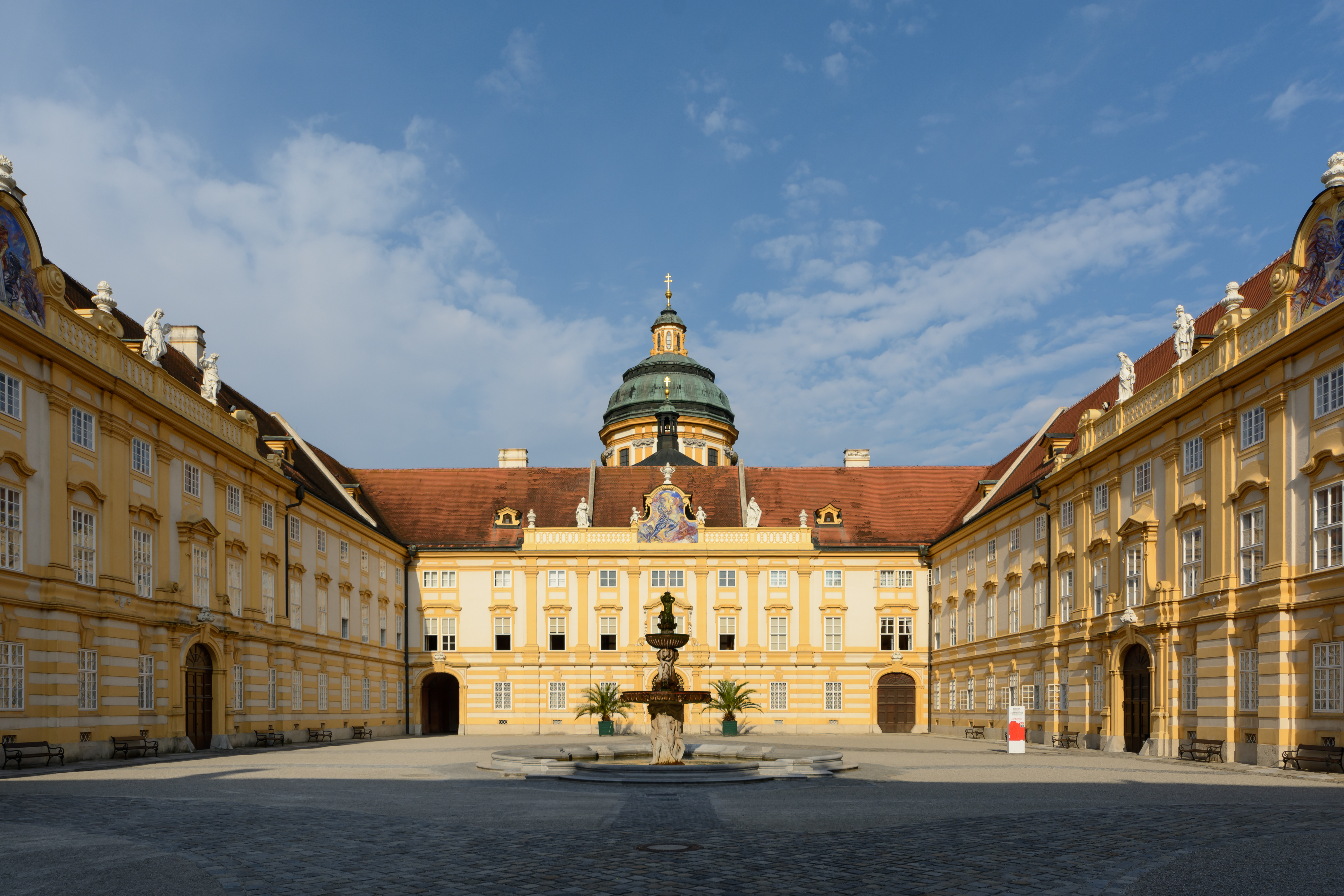 Prelate's courtyard at Melk Abbey, Lower Austria